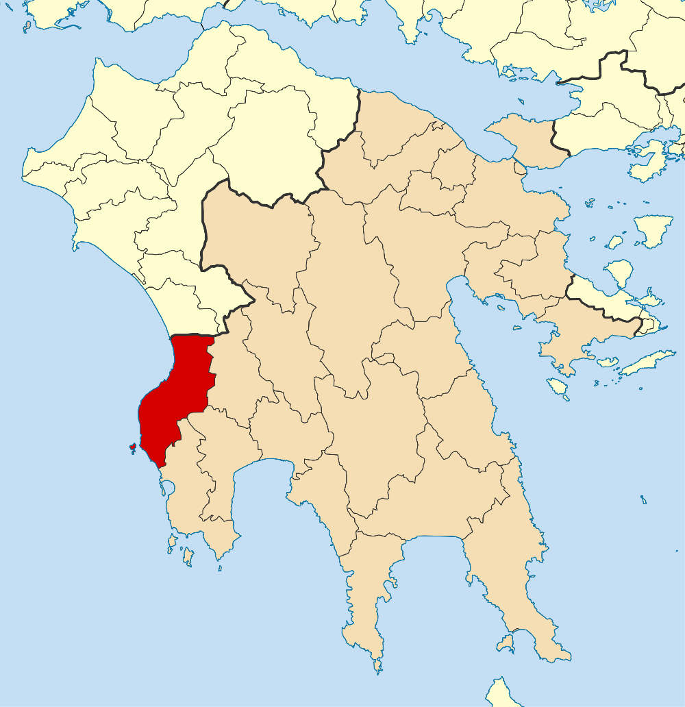 Locator map for Trifyllia municipality in Greek region Peloponnese (2011)